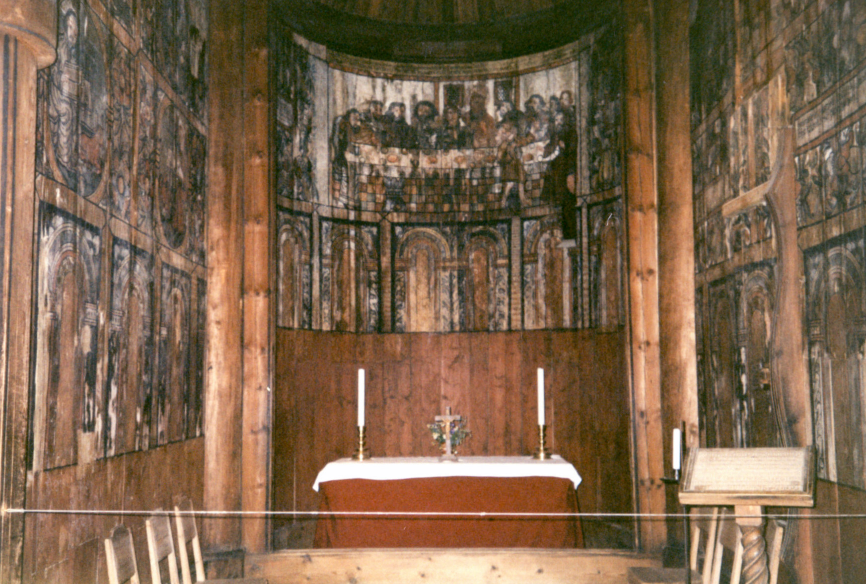 Gol stavkirke in Oslo - the altar